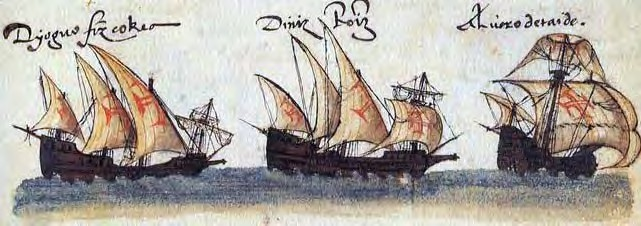 Caravelas de armada and a nau from da Gama’s second voyage to India in 1502. From Livro de Lisuarte de Abreu